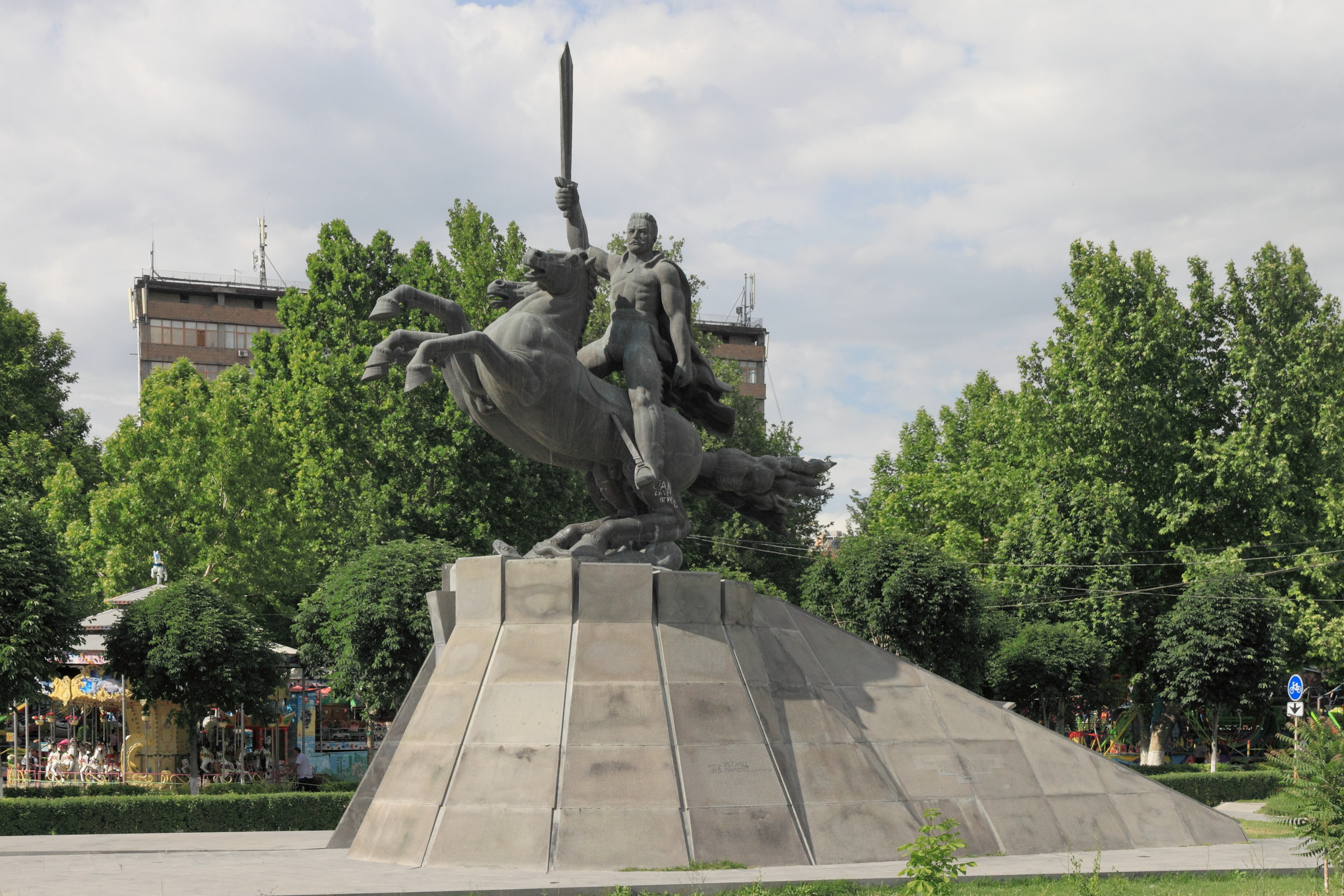 Monument of general Andranik Ozanian. Yerevan, Armenia.